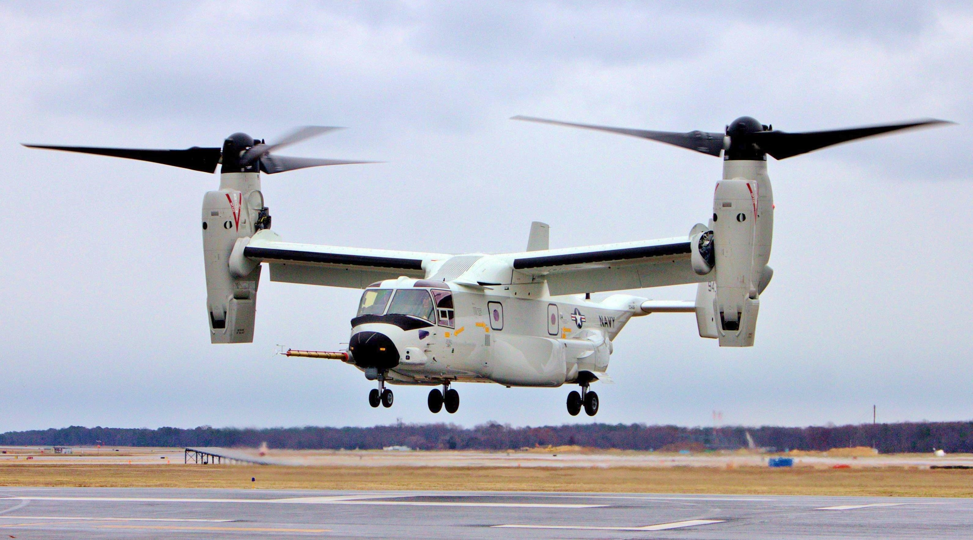 A U.S. Navy Bell-Boeing CMV-22B Osprey (BuNo 169435) lands at Naval Air Station Patuxent River, Maryland (USA), on 2 February 2020, after completing a ferry flight from the Bell Assembly Center in Amarillo, Texas (USA).